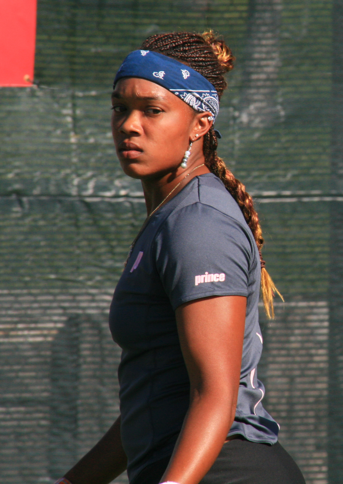 Angela Haynes at the Coleman Vision Tennis Championship in Albuquerque, New Mexico.